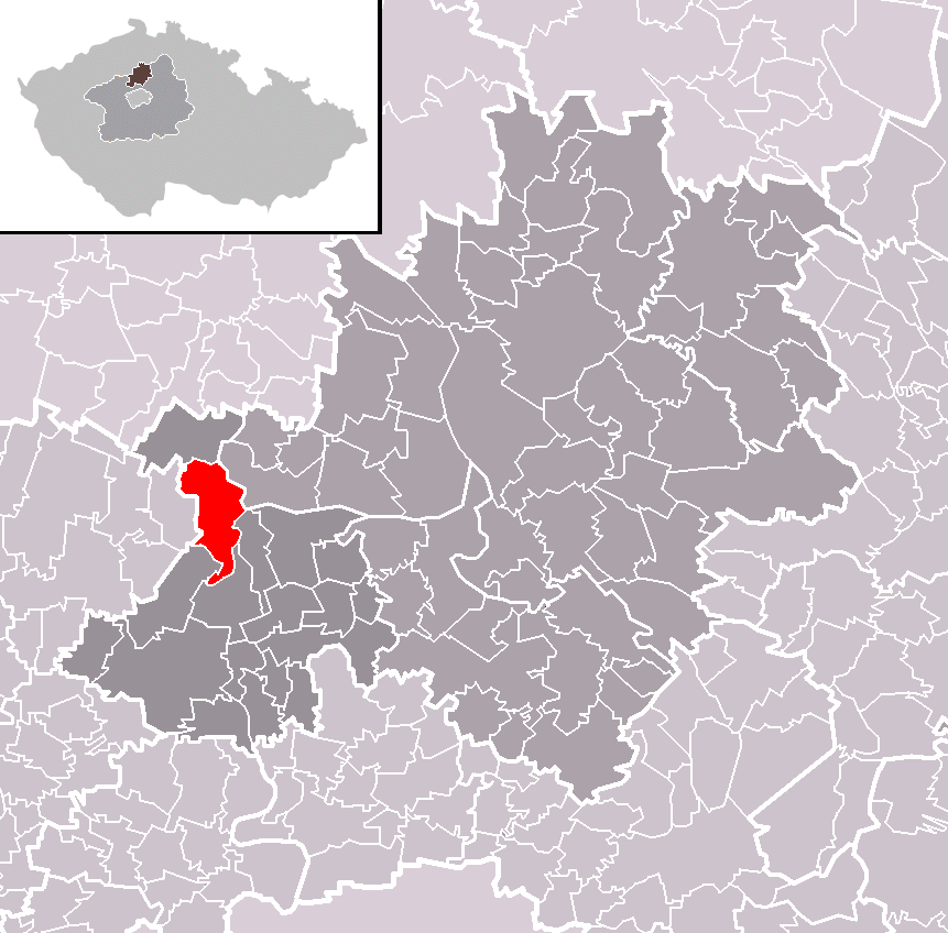 Location of Nová Ves municipality within Mělník District and administrative area of Kralupy nad Vltavou as a Municipality with Extended Competence.